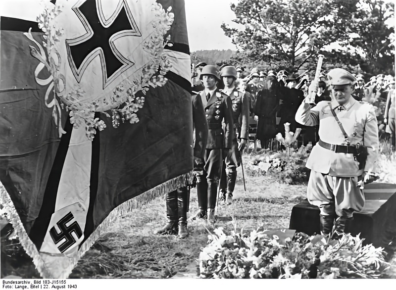 Burial Service for Generaloberst Hans Jeschonnek on 19 August 1943 in the presence of Reichsmarschall Hermann Göring. The Luftwaffe flag is in foreground.